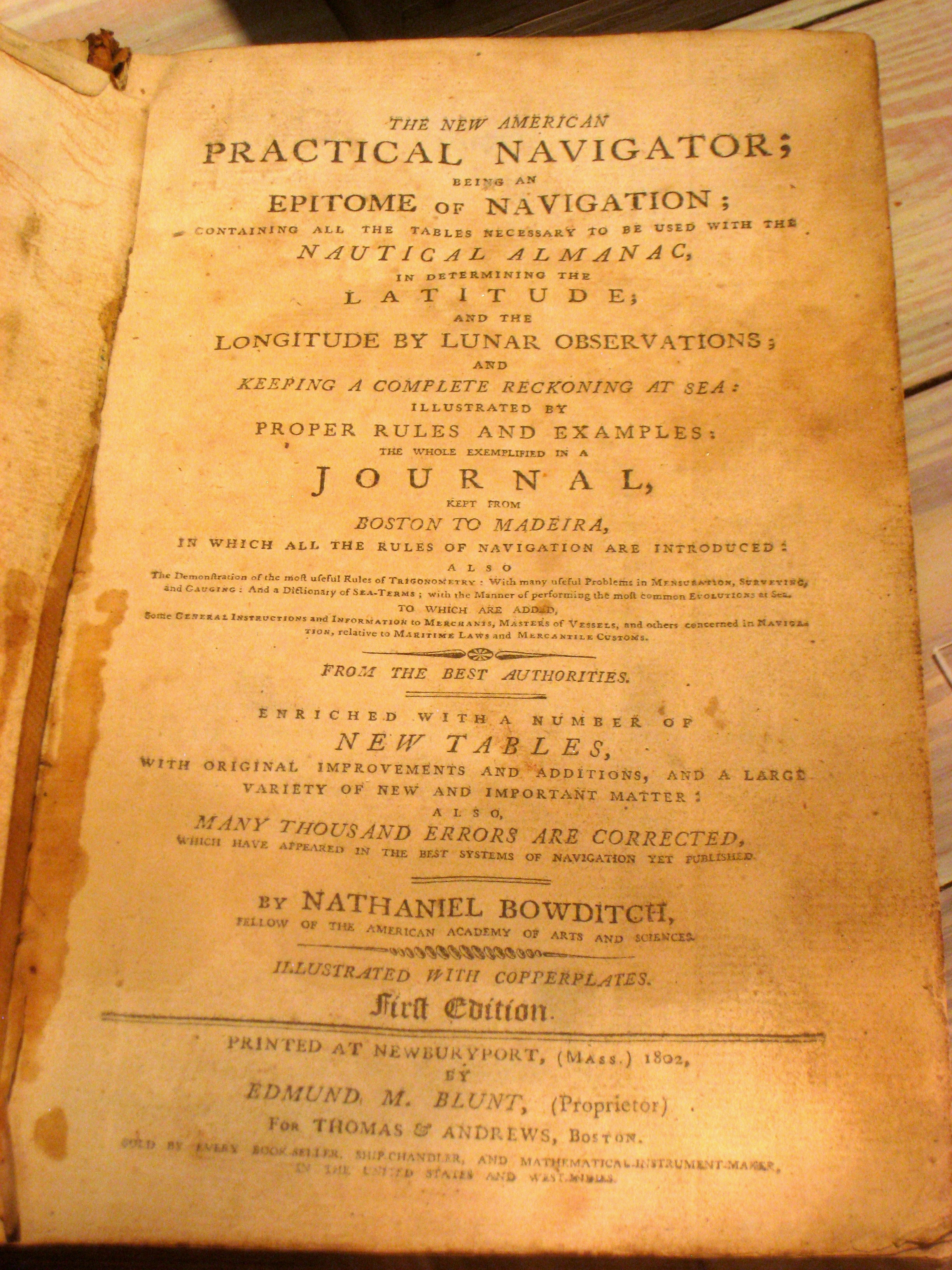 First edition of the Practical Navigator by Nathaniel Bowditch, 1802. Exhibit in HistoryMiami museum (formerly Historical Museum of Southern Florida), in the Miami-Dade Cultural Center, 101 West Flagler Street, Florida, USA. s.